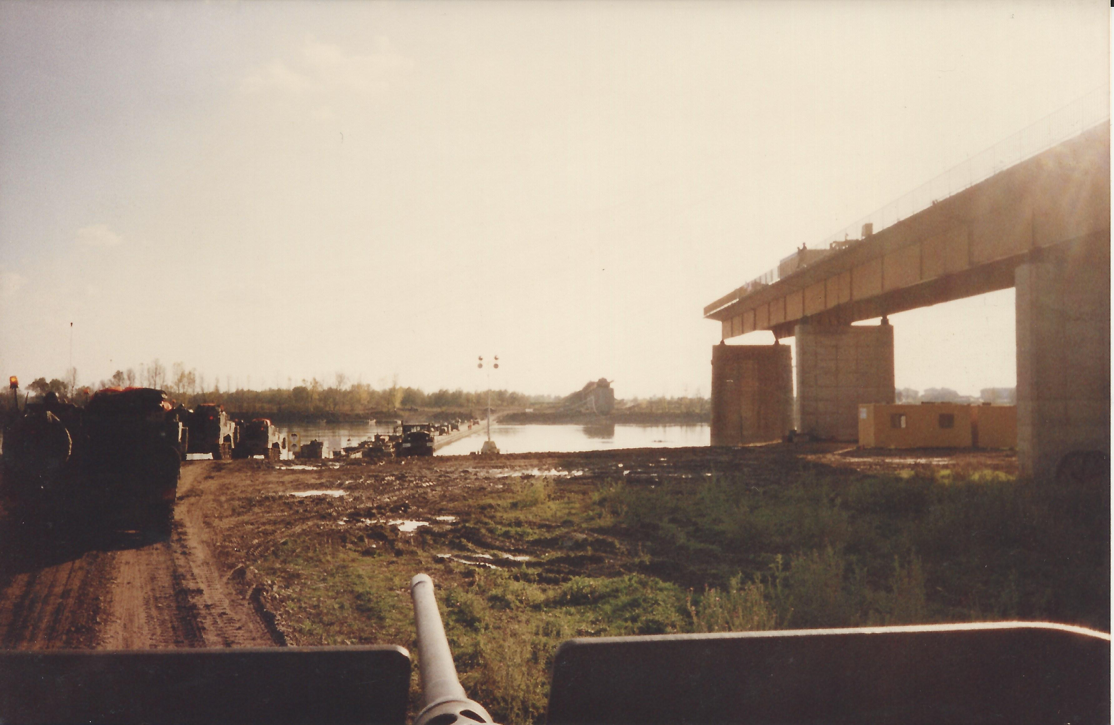 A convoy of vehicles from the 9th Engineer Battalion crosses the Sava River into Bosnia in October of 2006 in support of Operation Joint Endeavor. The photo is taken from the turret of a HMMWV overlooking a mounted M2 .50 Caliber Machine Gun. The elevated Brčko Bridge between Bosnia and Croatia on the right of the picture still shows wartime damage. It was repaired in 2000 by US Army Engineers.[1]